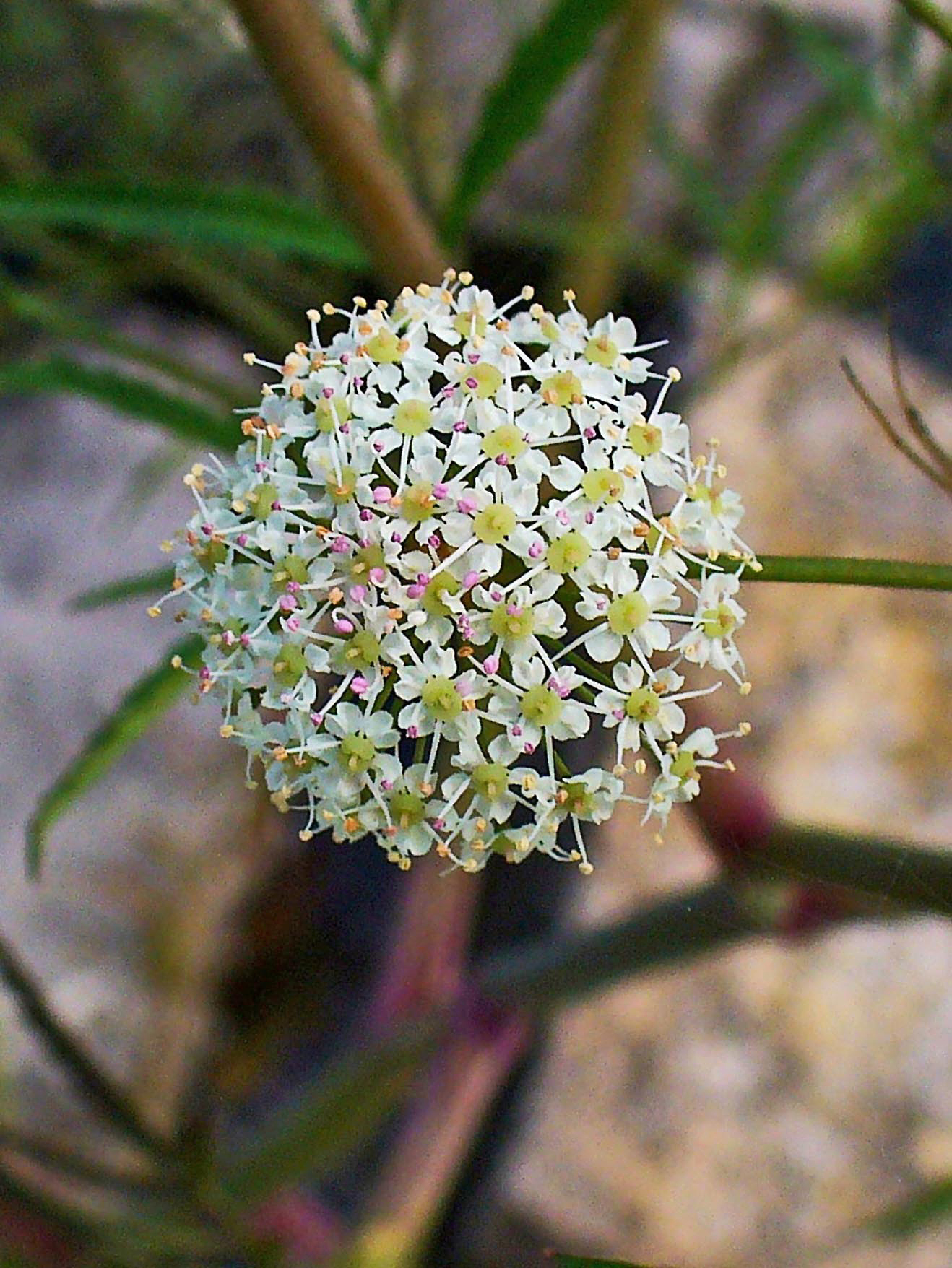 Cicuta virosa, Apiaceae, Cowbane, Northern Water Hemlock, inflorescence. The fresh subterranean parts of the blooming plant are used in homeopathy as remedy: Cicuta virosa (Cic.)